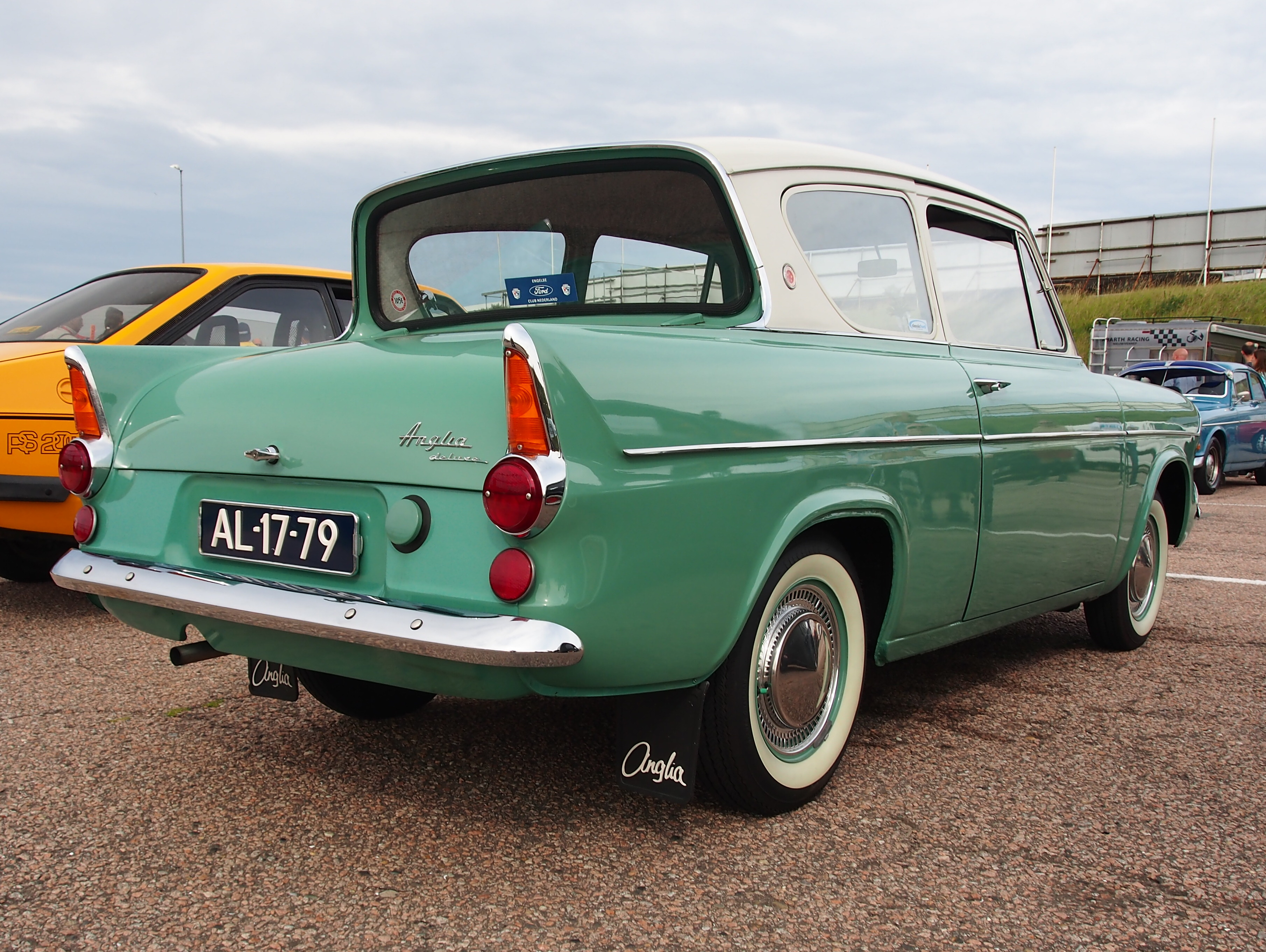 Photographed at the Nationaal Oldtimer Festival Zandvoort 2014, The Netherlands.